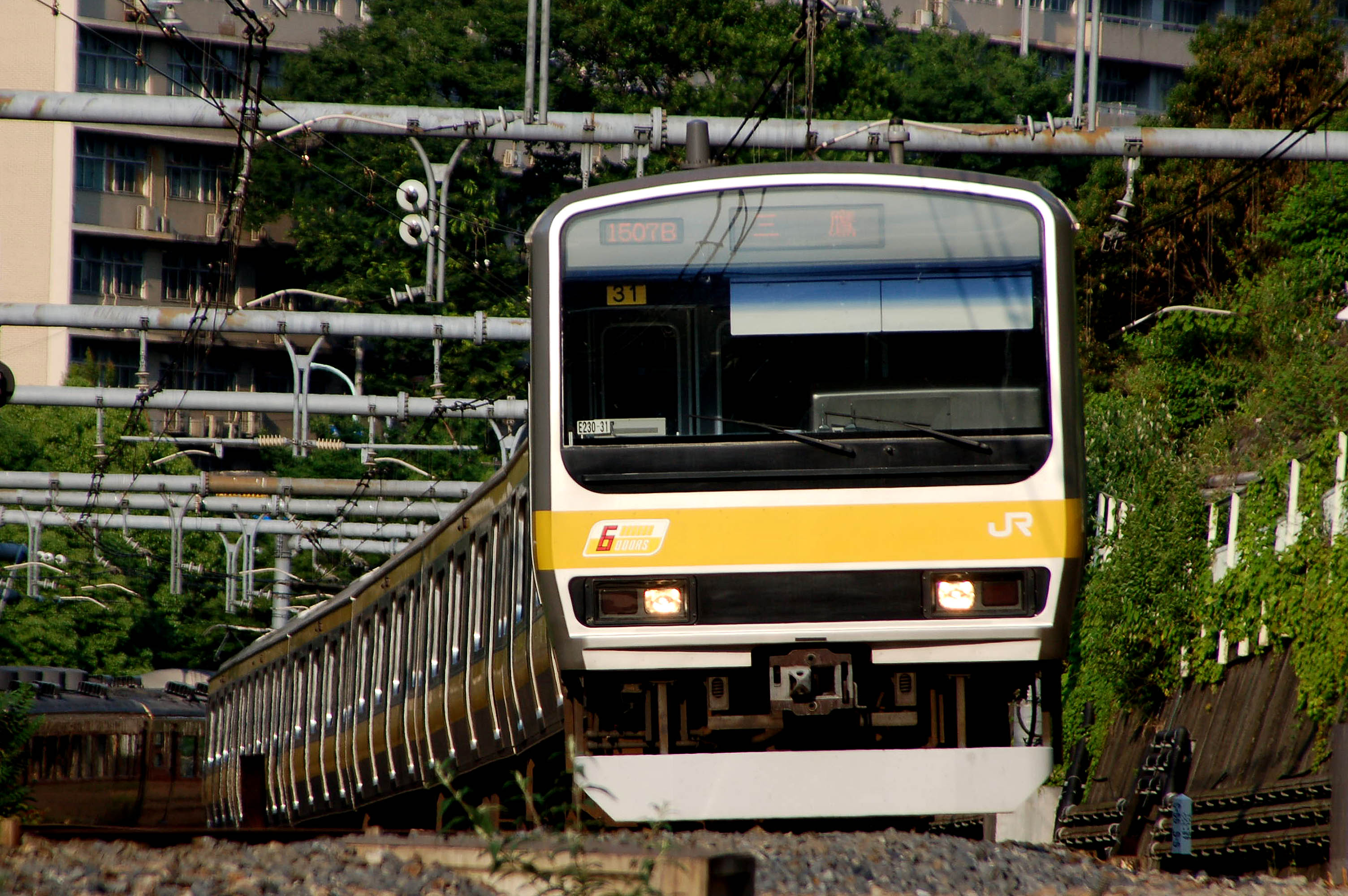 JR East E231 series electric car, commuter train type(chuo-sobu local train version).